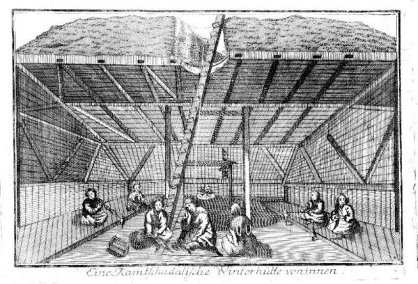 Itelmen (Kamchadal) winter dwelling - dugout.